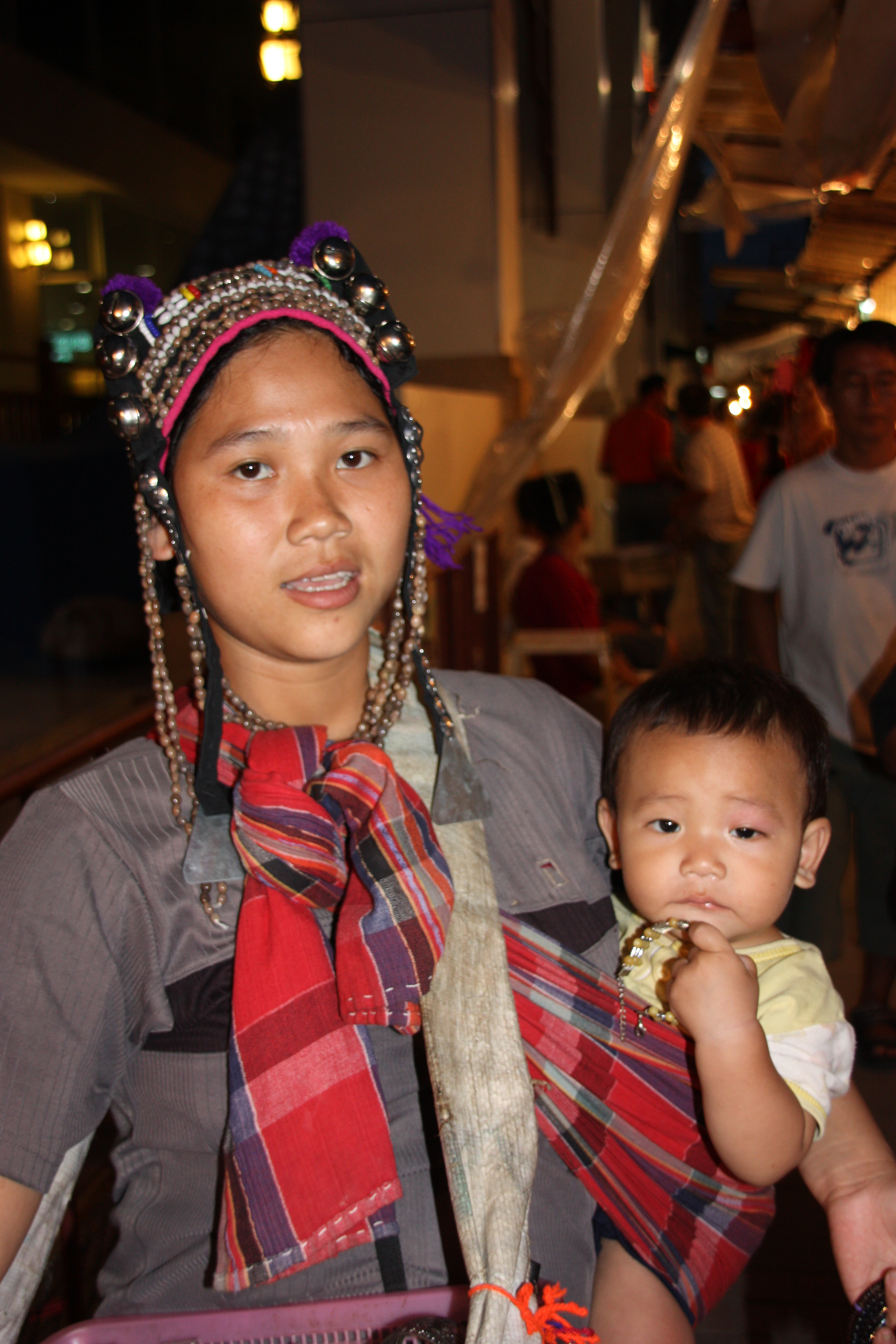 Akha, hilltribe